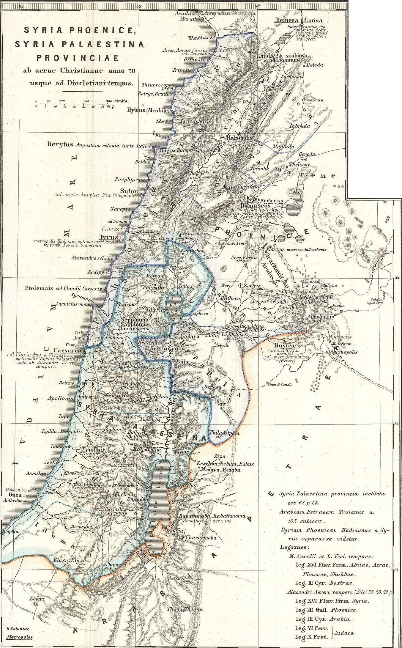 This is Karl von Spruner’s 1865 map of the Holy Land, or Israel and Palestine. Essentially nine maps in one, Spruner features two dominant maps and 7 smaller insets, including a Peutinger Table in the lower-right quadrant. The Peutinger Map is an astoundingly important discovery and is today’s only known example of a Roman world map, though the original Peutinger was itself a mediaeval copy of the Roman original. This map also shows, in counter-clock wise order from the Peutinger table, Galilaea, Hierosolyma, Judaea, Palestine at the time of Herod, Syria, Arabia, and Phoeniciae, Palestine, and Arabia. Many of the insets include their own scale or legend. Map notes important cities, rivers, mountain ranges and other minor topographical detail. Territories and countries outlined in color. The whole is rendered in finely engraved detail exhibiting throughout the fine craftsmanship of the Perthes firm.